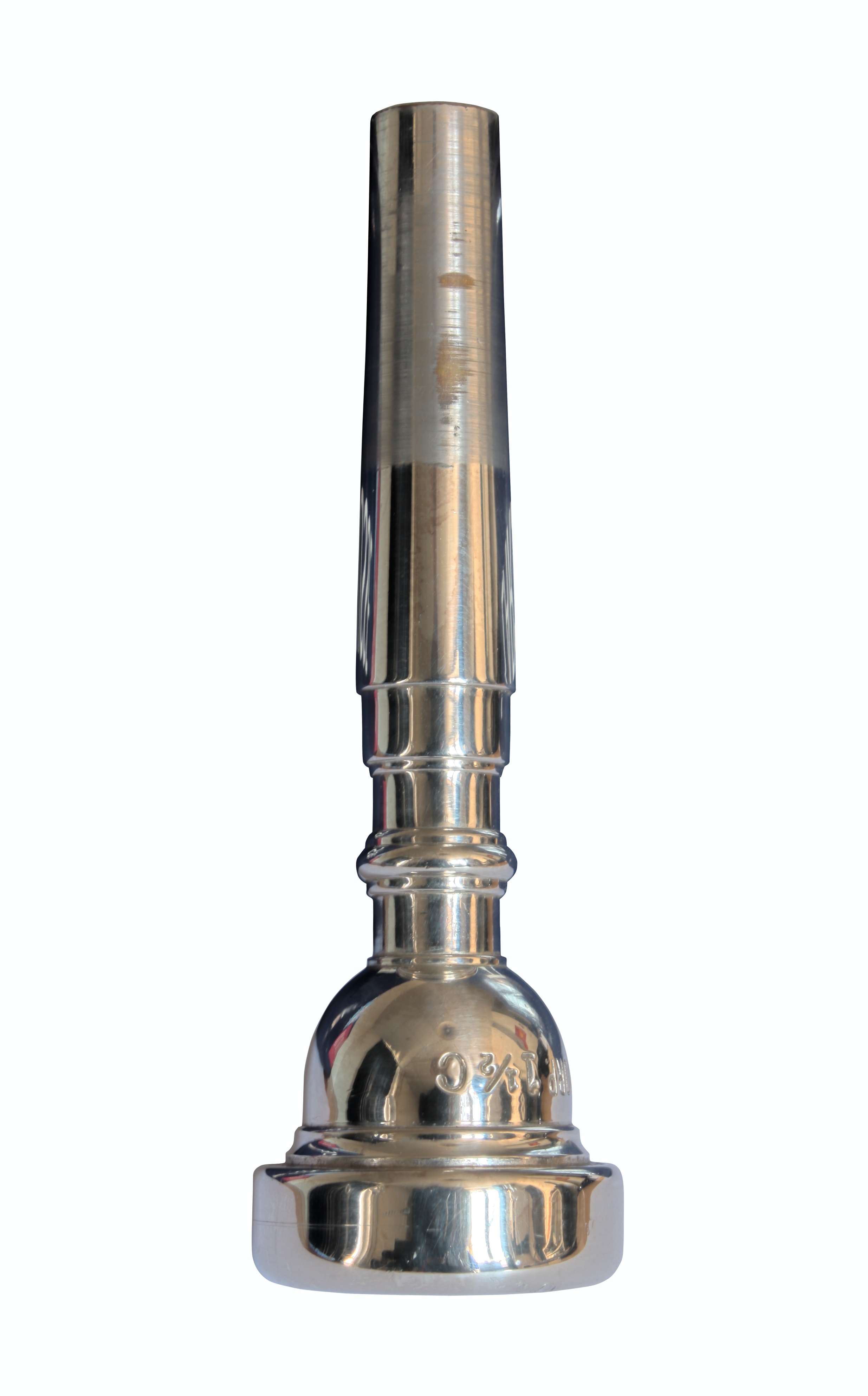 A trumpet mouthpiece. Depicted model is a Vincent Bach 1½C.